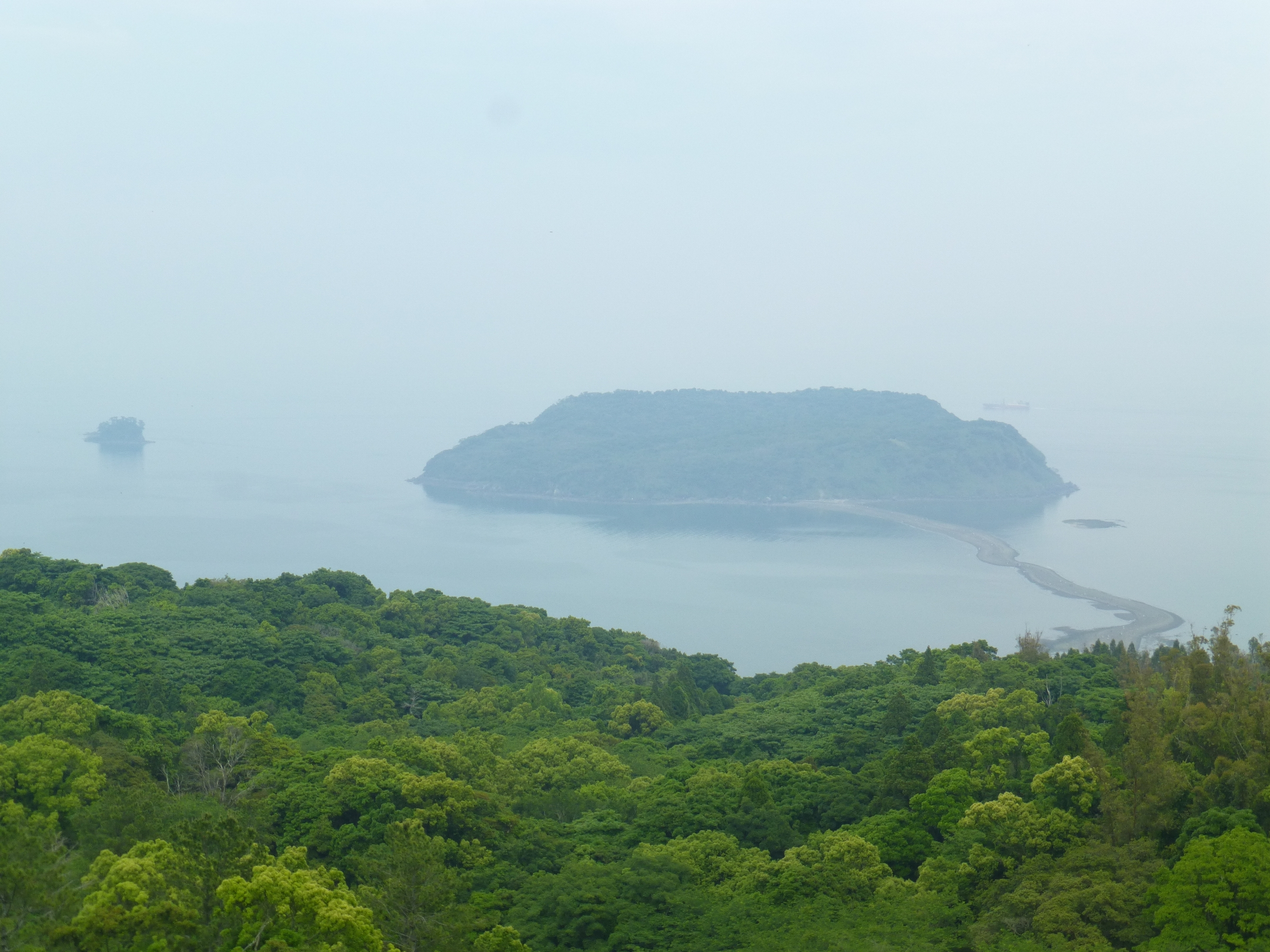 Chiringashima island from Mount Uomidake observatory, Ibusuki, Kagoshima, Japan.